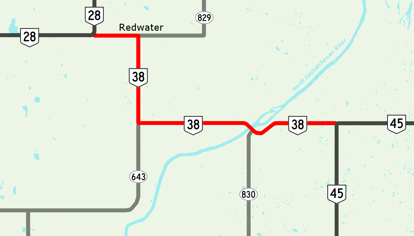 Alignment of Highway 38 in central Alberta.